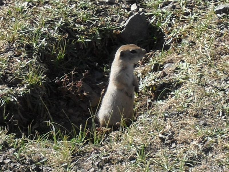 Gopher near hole